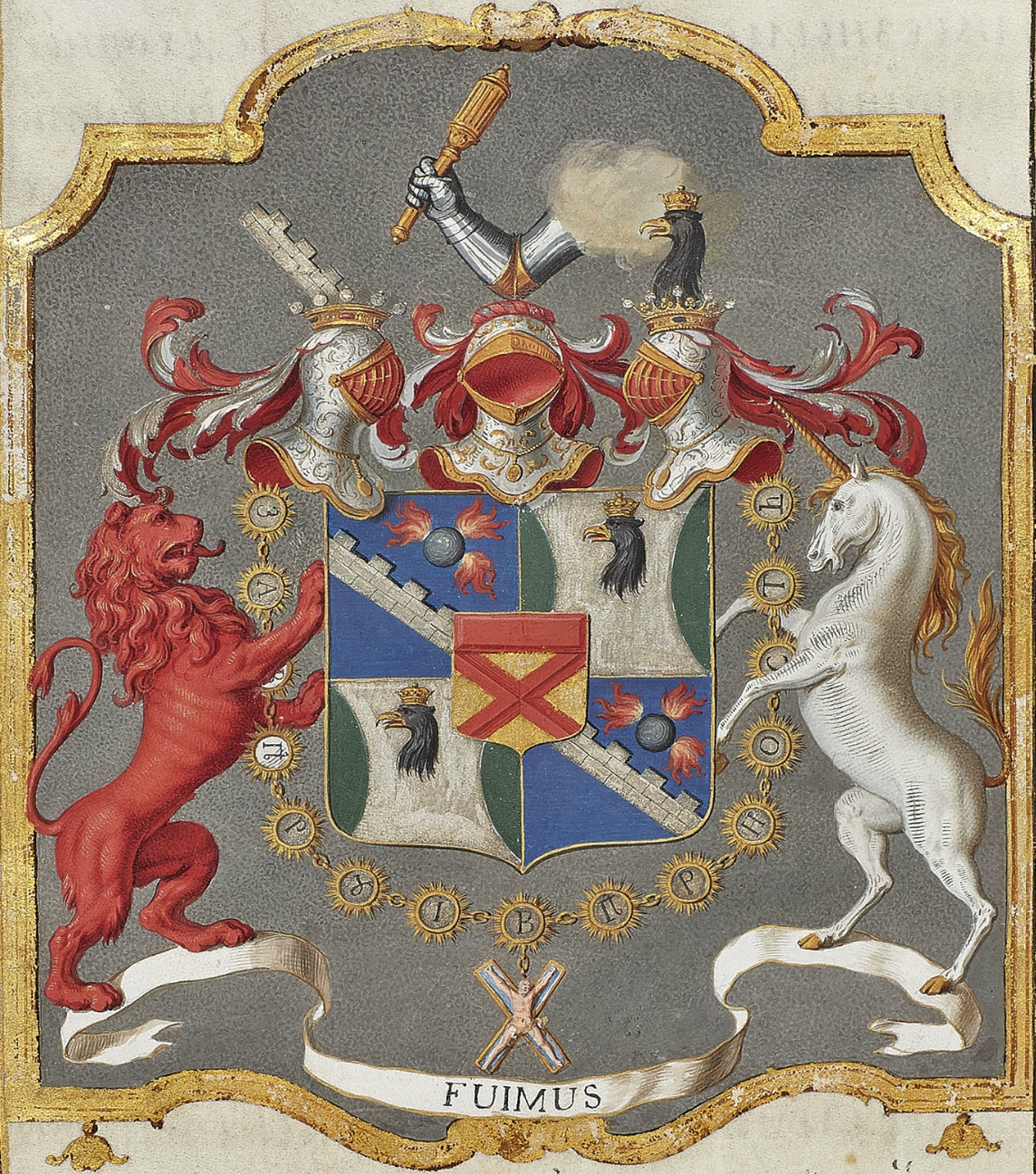 Arms of Count James Daniel Bruce, Scots-Russian statesman, from his diploma of nobility.